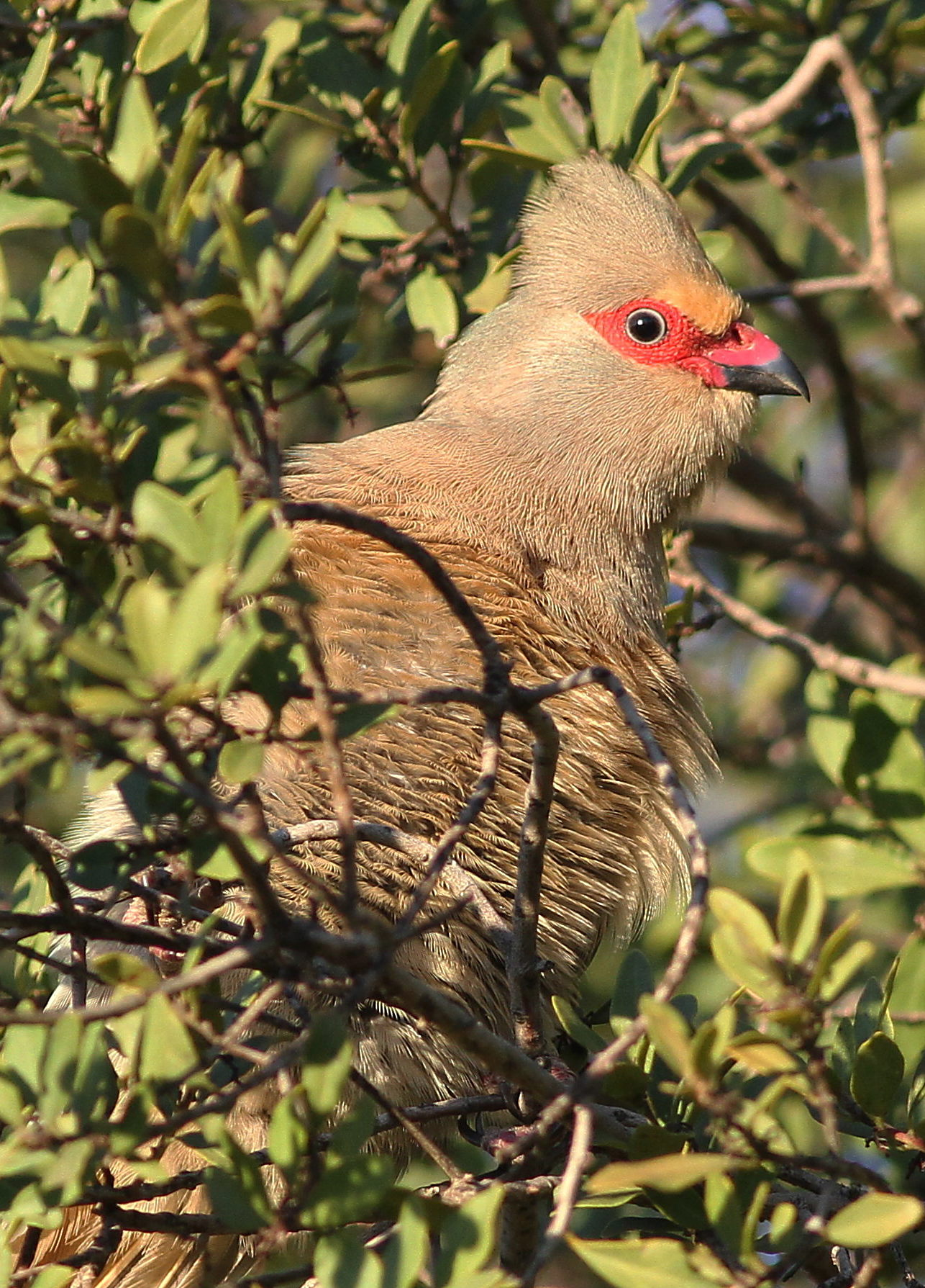 Red-faced mousebird, Urocolius indicus, at Pilanesberg National Park, Northwest Province, South Africa